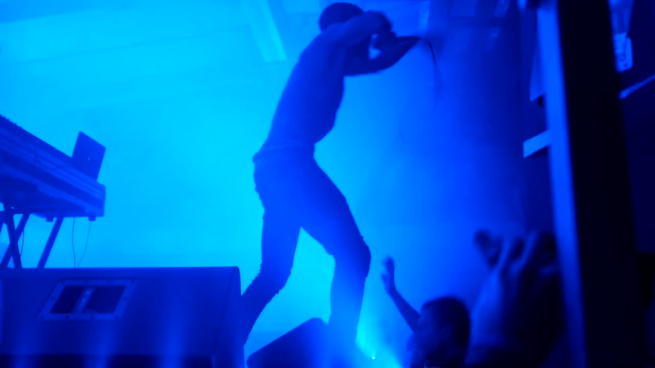 Moscow, 16 May 2013